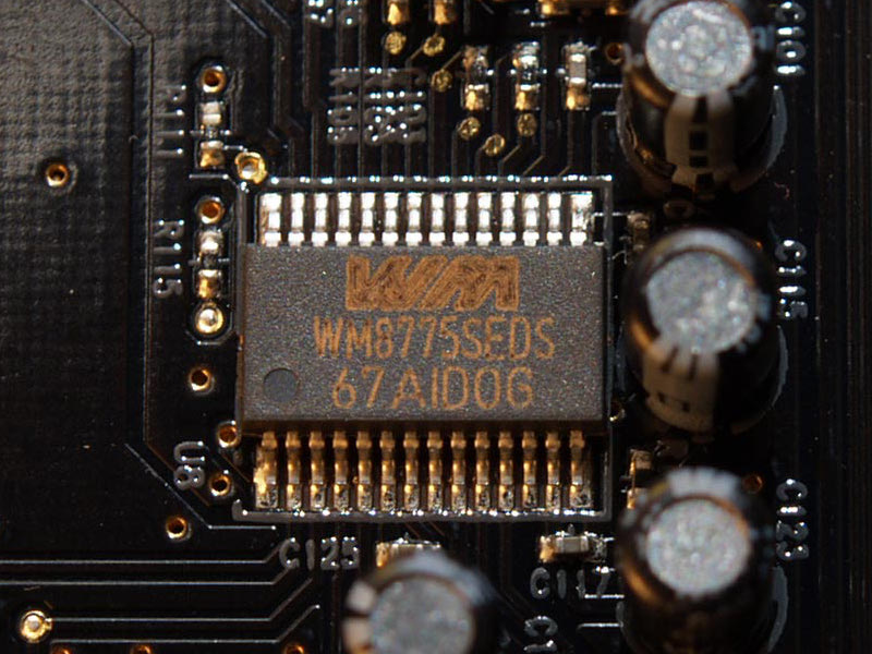 Wolfson Microelectronics WM8775SEDS a high performance 4-channel stereo multiplexed ADC 102 dB SNR A weighted at 48 kHz, -90 dB THD and ADC sampling frequency between 32kHz and 96kHz placed on Sound Blaster X-Fi sound card